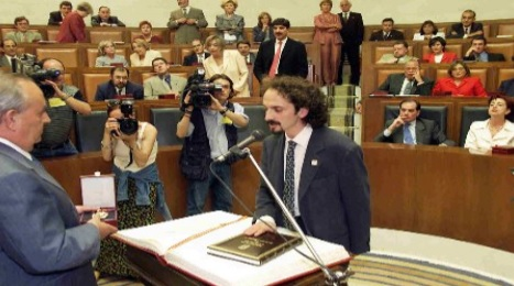 Takeover of Carlos Rad Moradillo as Procurator of the Cortes of Castilla y León.